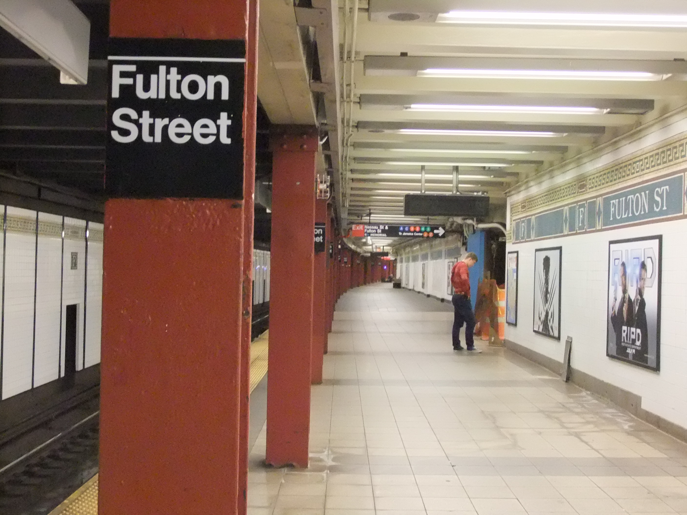 Broad Street bound platform at Fulton Street (Nassau).